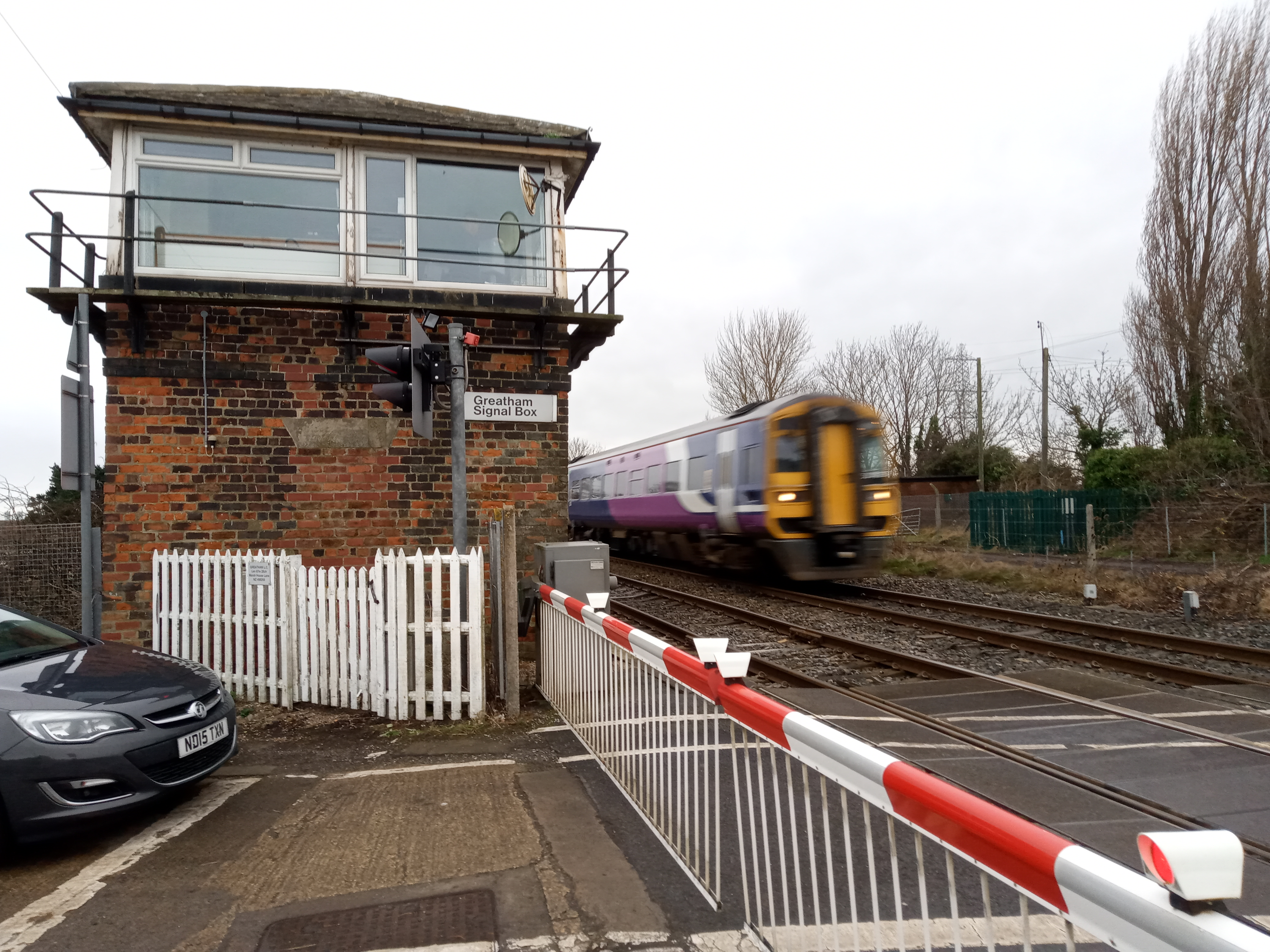 Greatham